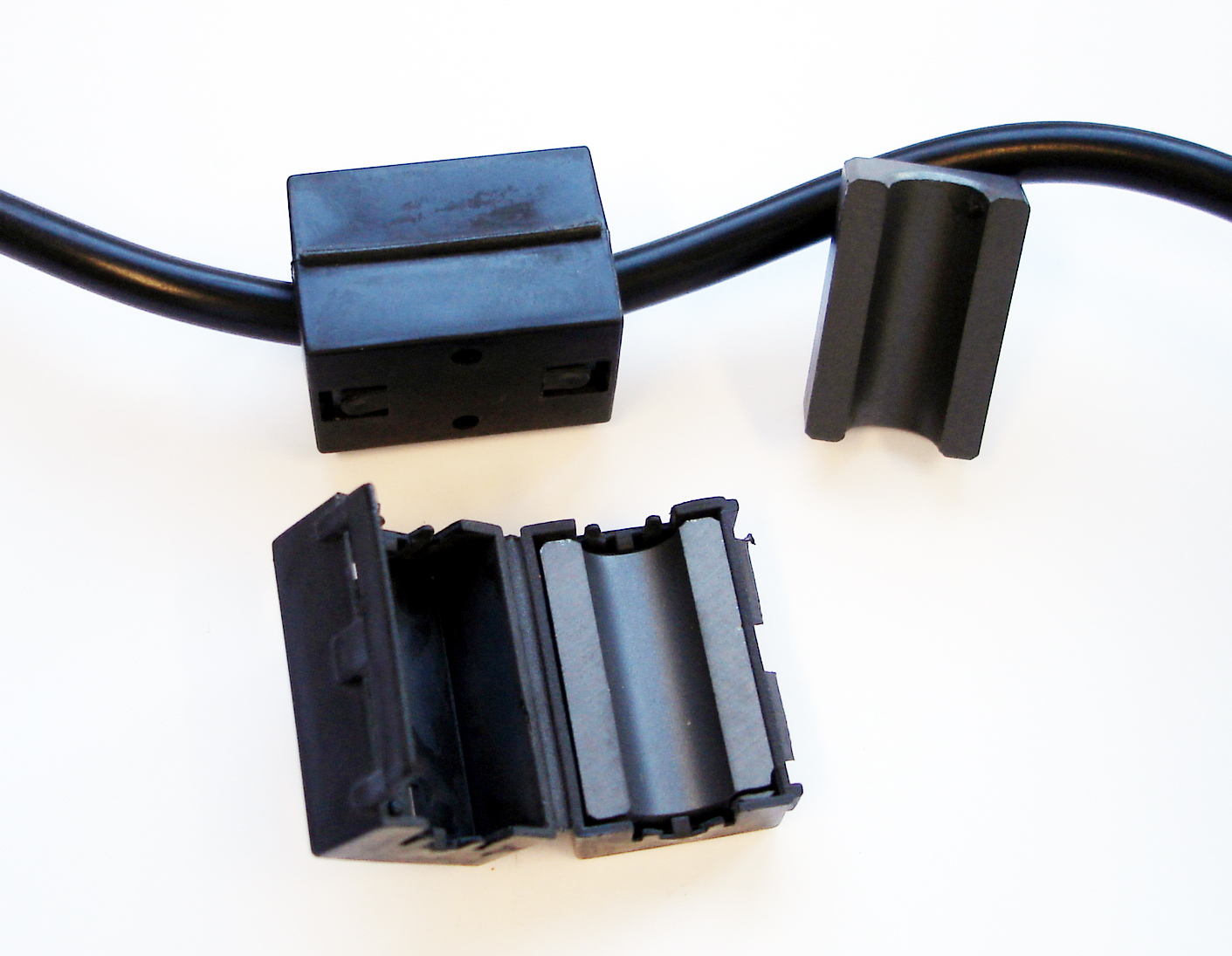 Ferrit cores